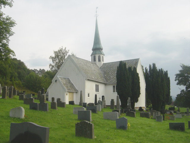 The churche Halsa kirke in Norway